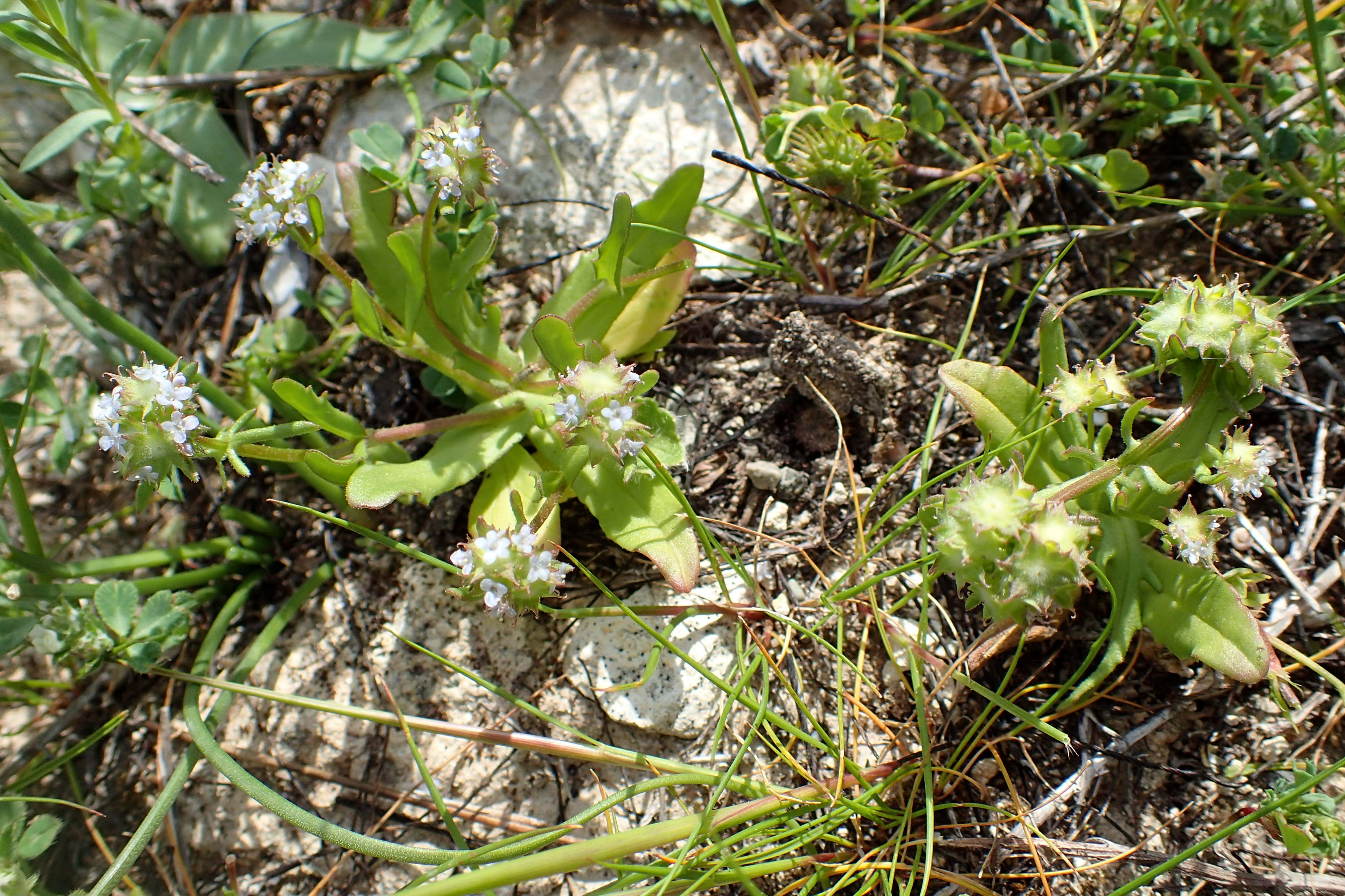 Valerianella discoidea in Petra tou Ramiou, Cyprus